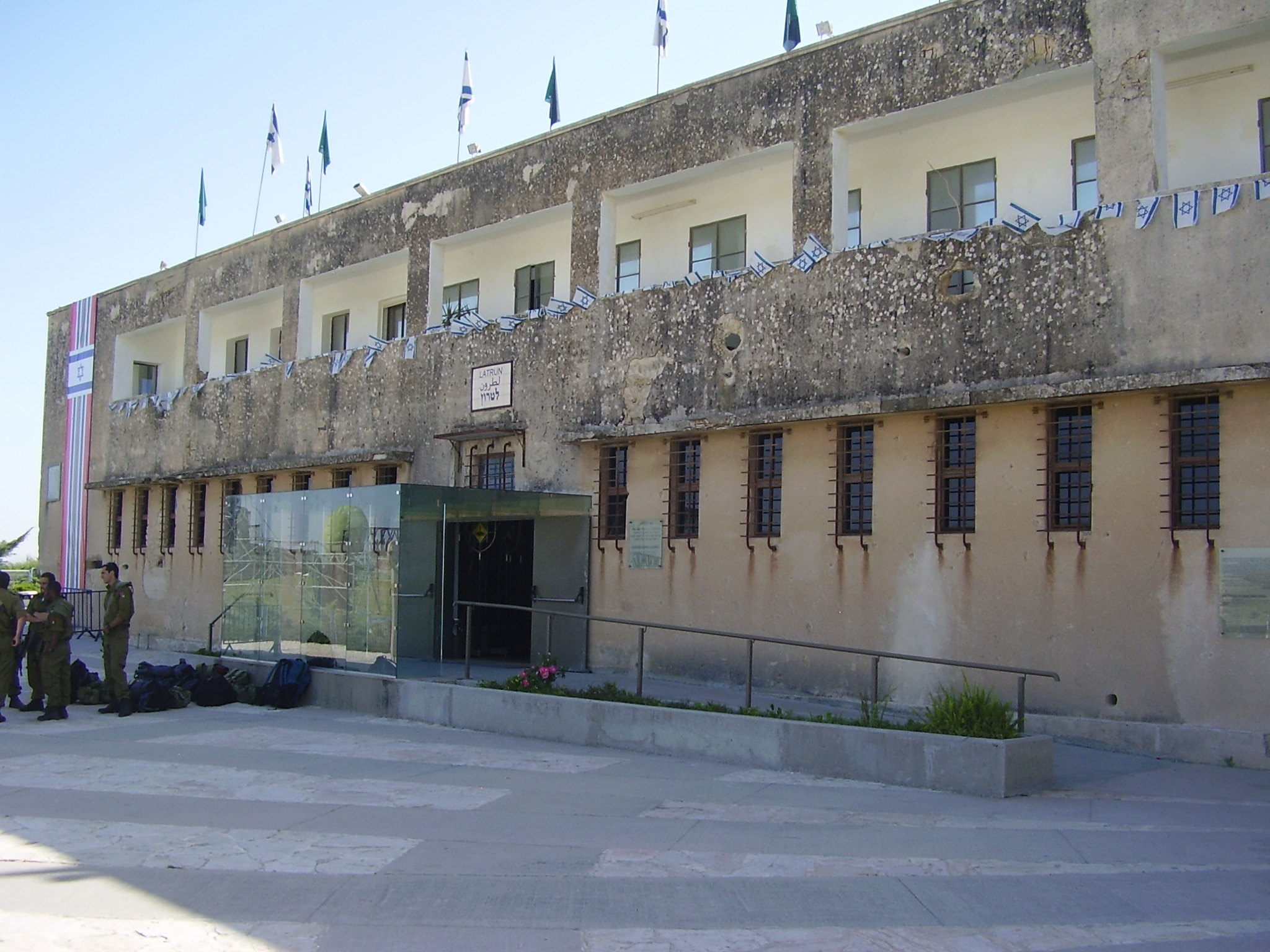 Armored Corps Museum in Latrun